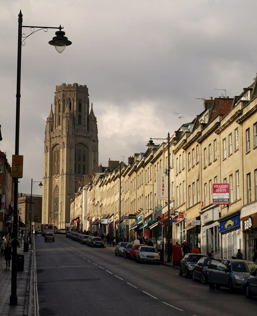 Park Street, Bristol. The view up the shopping street, with impressive terraces on the right, culminating in 115379.